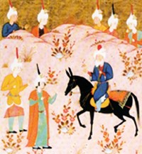 A late 16th century Persian miniature, Safavid period, representing Ibn 'Arabi on horseback with two students. Courtesy of the Bodleian Library, Oxford.